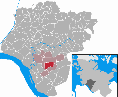 This map shows the area of the municipality Grevenkop in the Kreis (district) Steinburg, Schleswig-Holstein, Germany.